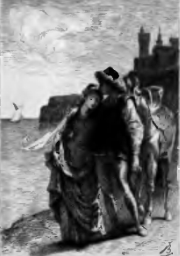 1878 Illustration by A. Bida for Aucassin et Nicolette in french. Bibliography : Alexandre Bida (Translator and Illustrator) (préf. Gaston Paris), Aucassin et Nicolette : chante-fable du douzième siècle, Paris, Hachette et Cie, 1878, In-8°. XXXI-140 p. et 11 pl. (OCLC nº 632457123)